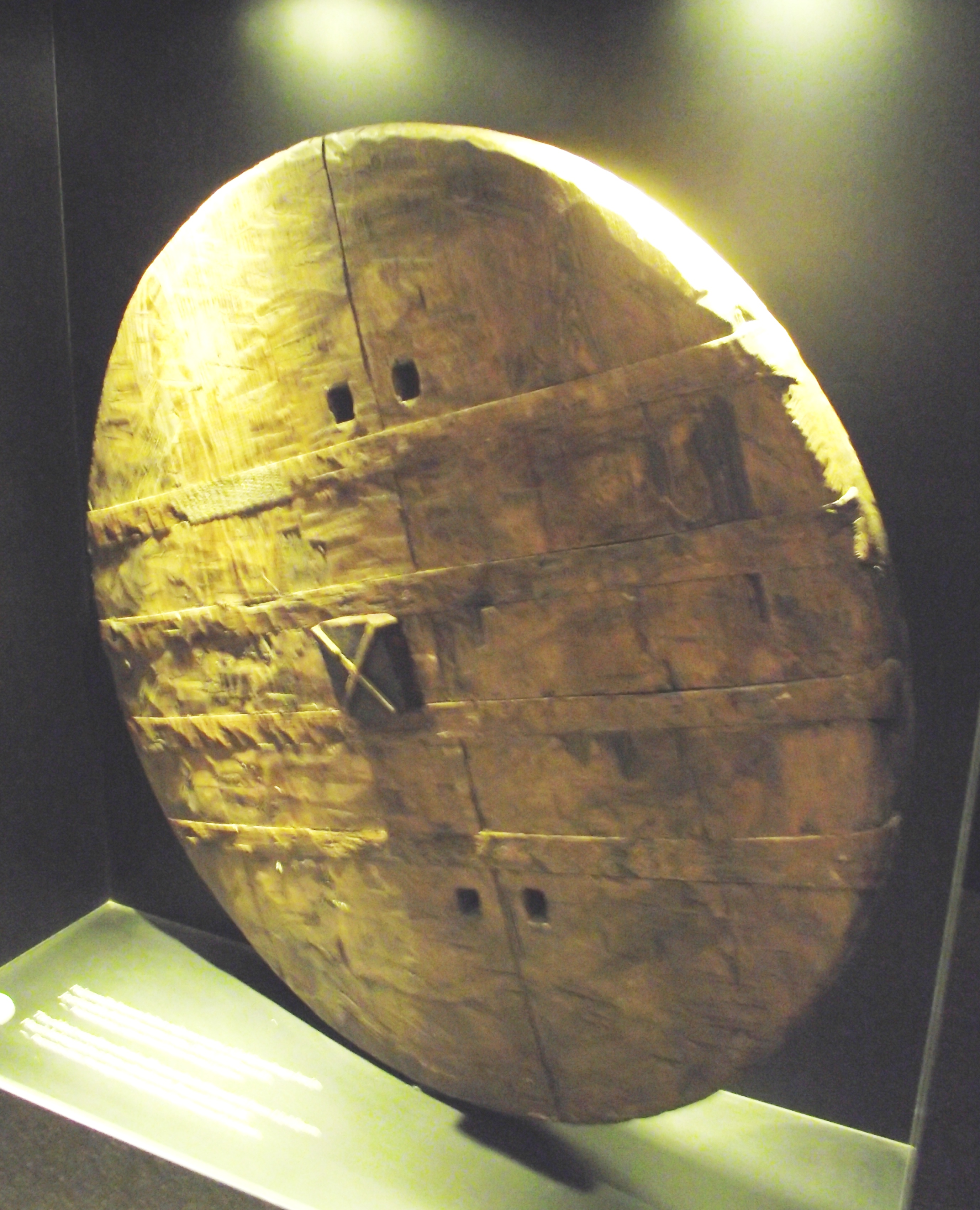 Ljubljana Marshes Wheel replica